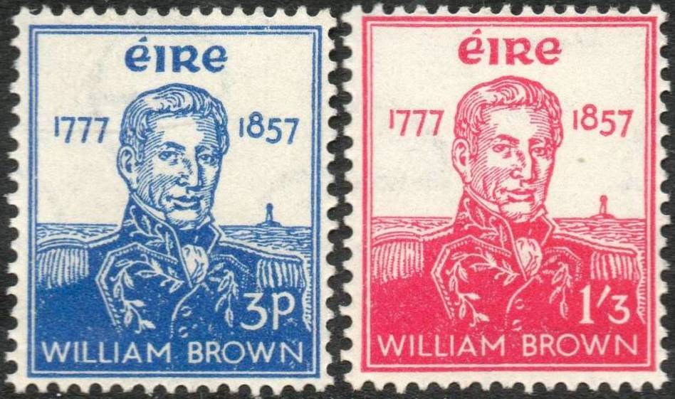 1957 stamps of Ireland issued for the death centenary of Admiral William Brown, the Irish-born Argentine Admiral.